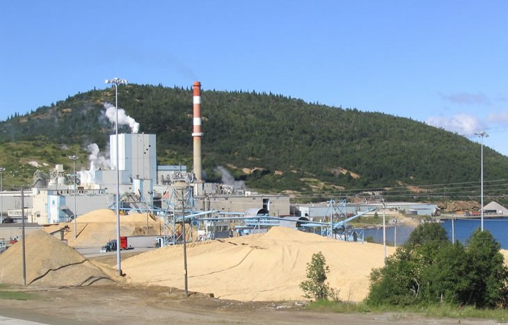 Marathon Pulp Mill, operated 1946-2009